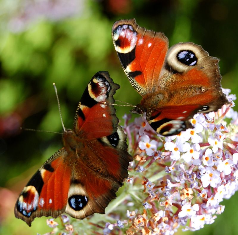 A pair of peacock butterflies - the first I've seen this year